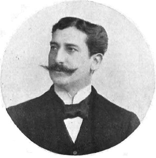 German actor Franz Schönfeld (1851–1932)